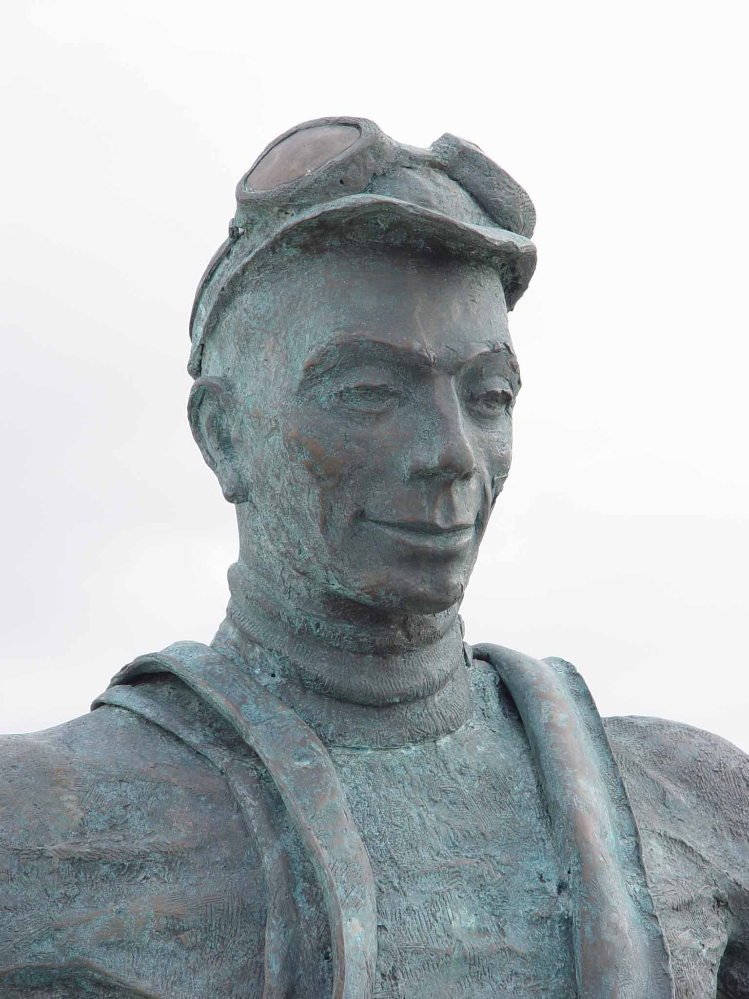 Nicolas Frantz Memorial in Mamer (Luxembourg) , winner of the Tour de France 1927 and 1928